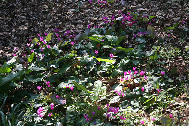 Broadclyst: Cyclamen repandum at Killerton Seen in Killerton Park